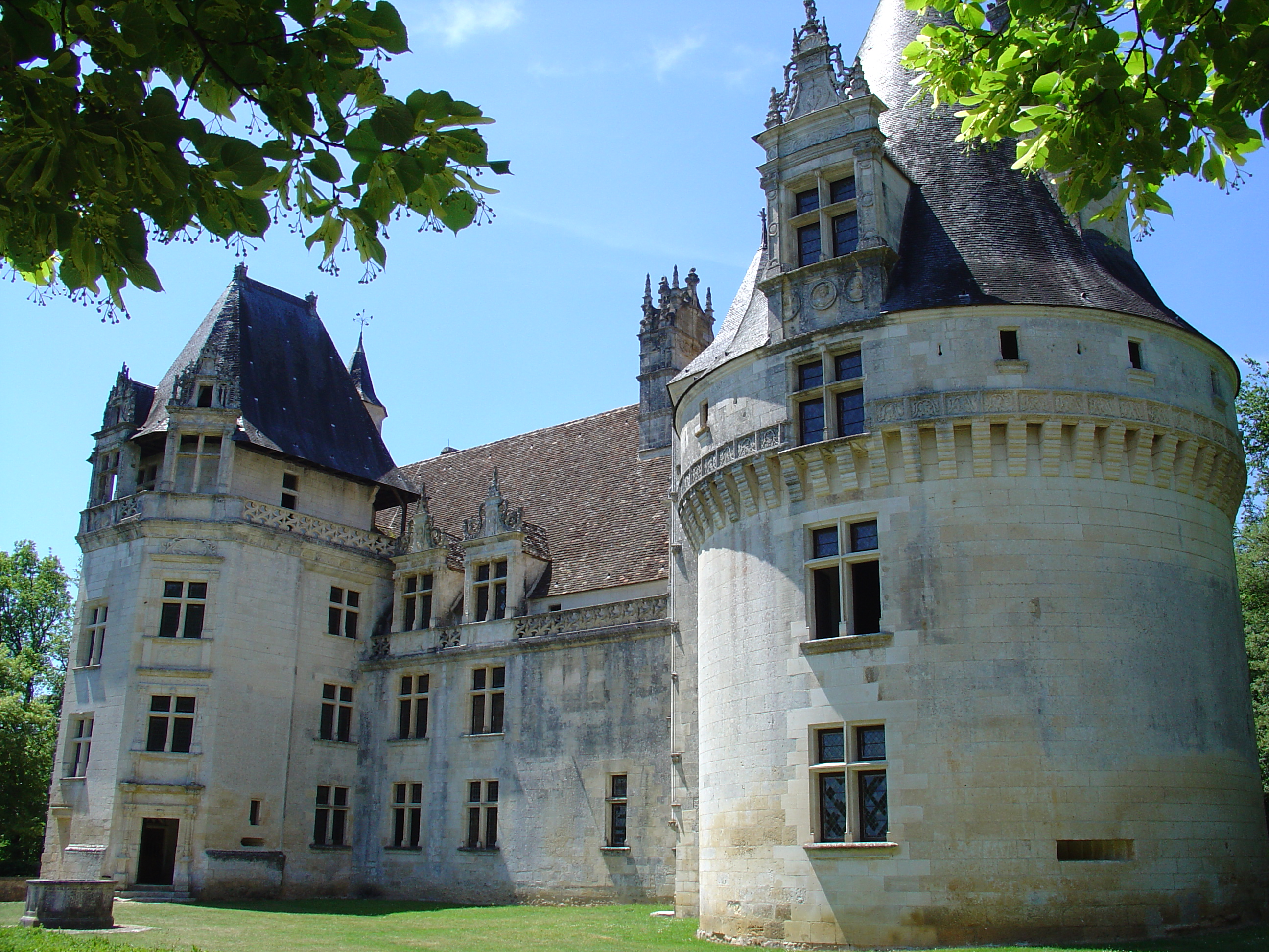 The castle of Puyguilhem from outside, closeup, 2006